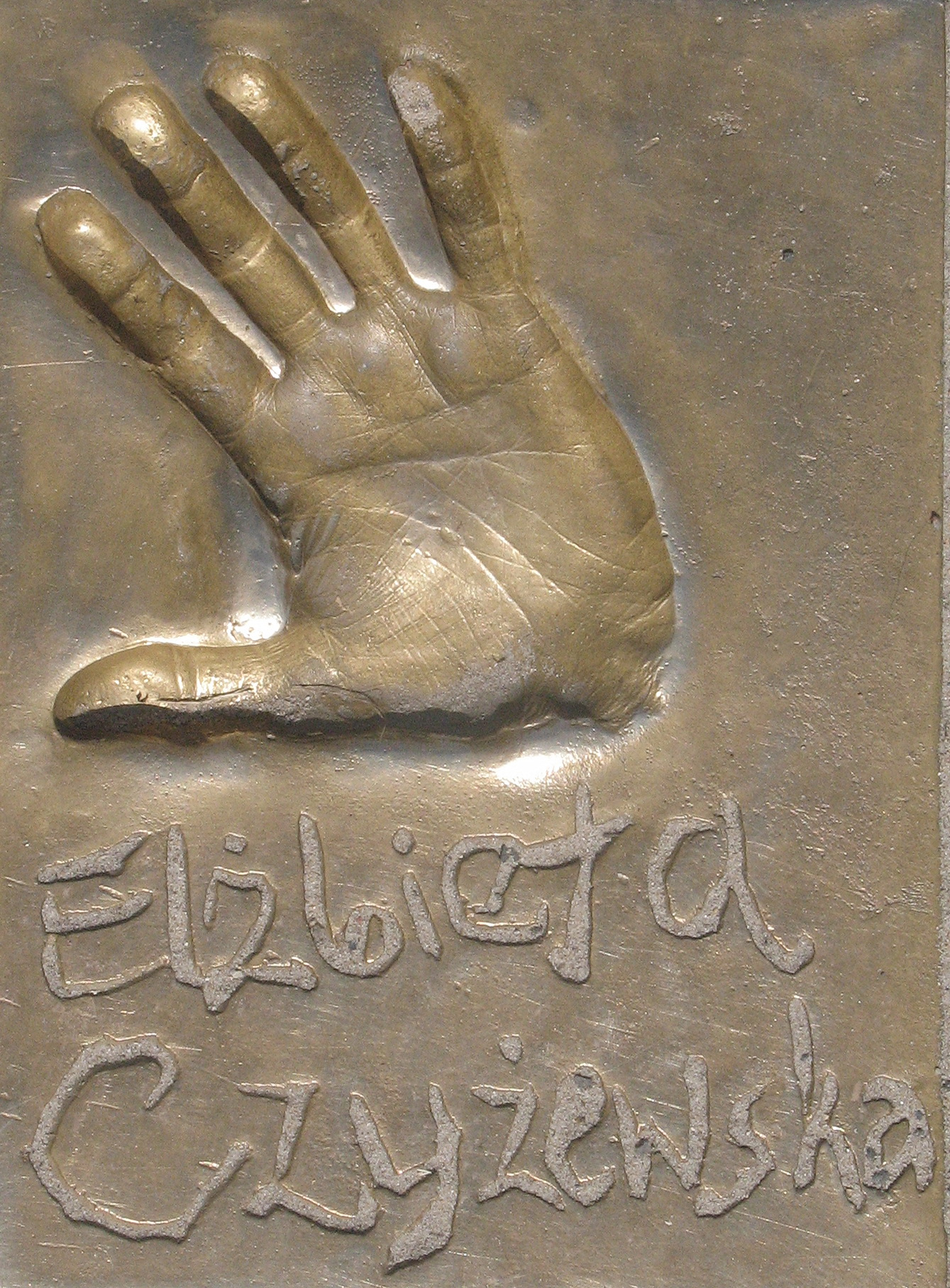 Elżbieta Czyżewska - handprint and signature in Międzyzdroje